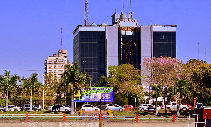 View of Casa de Gobierno building in Formosa, Argentina.